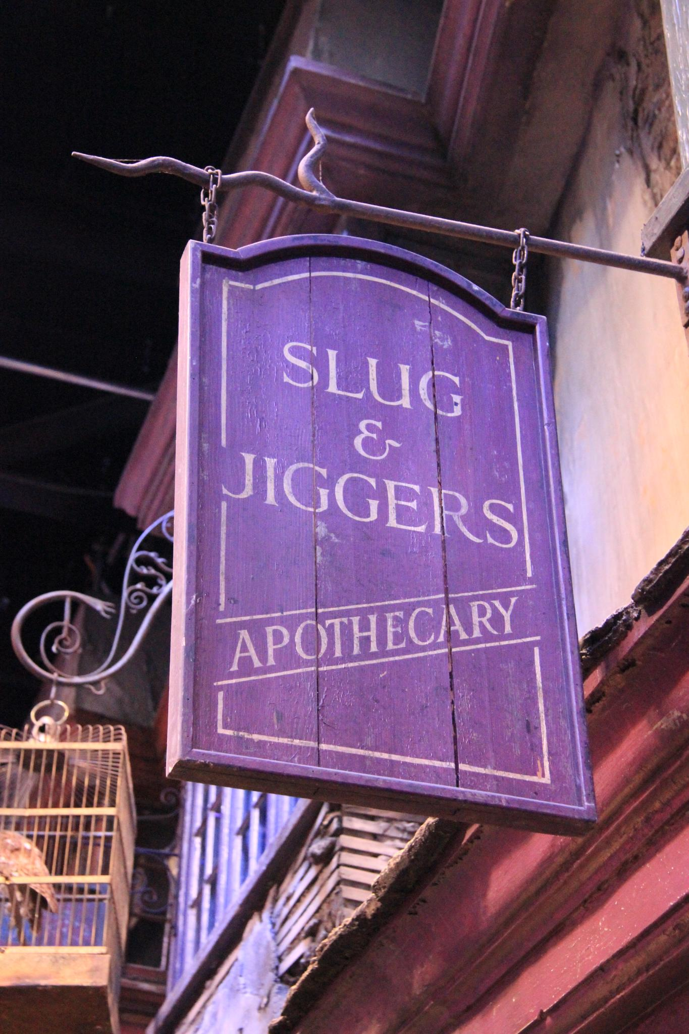 Warner Bros. Studio Tour London: The Making of Harry Potter.